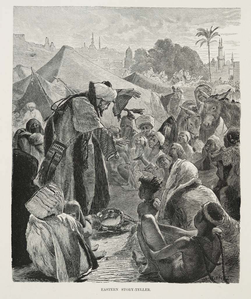 A man in heavy robes animatedly telling a story to an eager crowd.